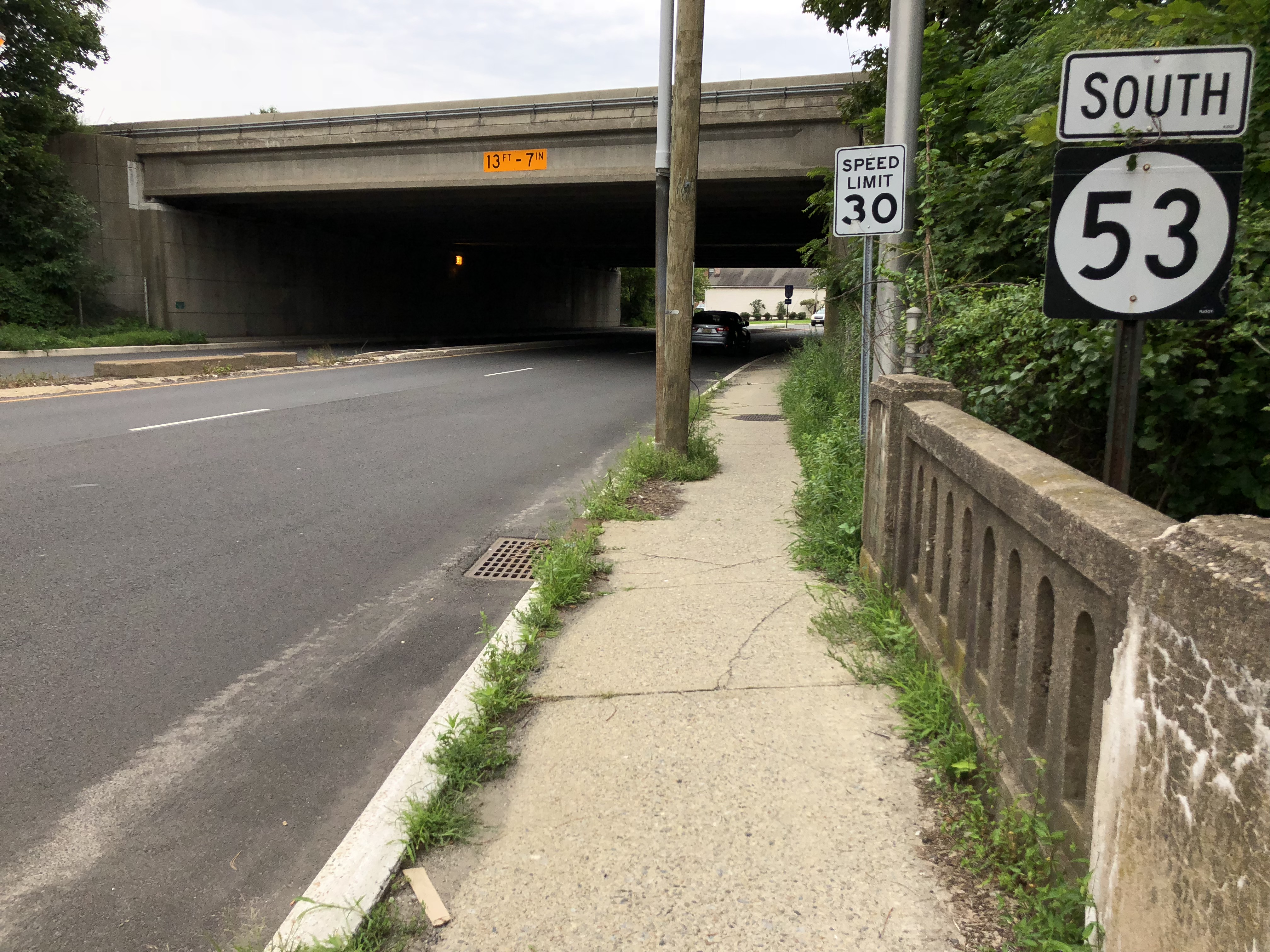 View south along New Jersey State Route 53 (Main Street) between U.S. Route 46 and Interstate 80 in Denville Township, Morris County, New Jersey